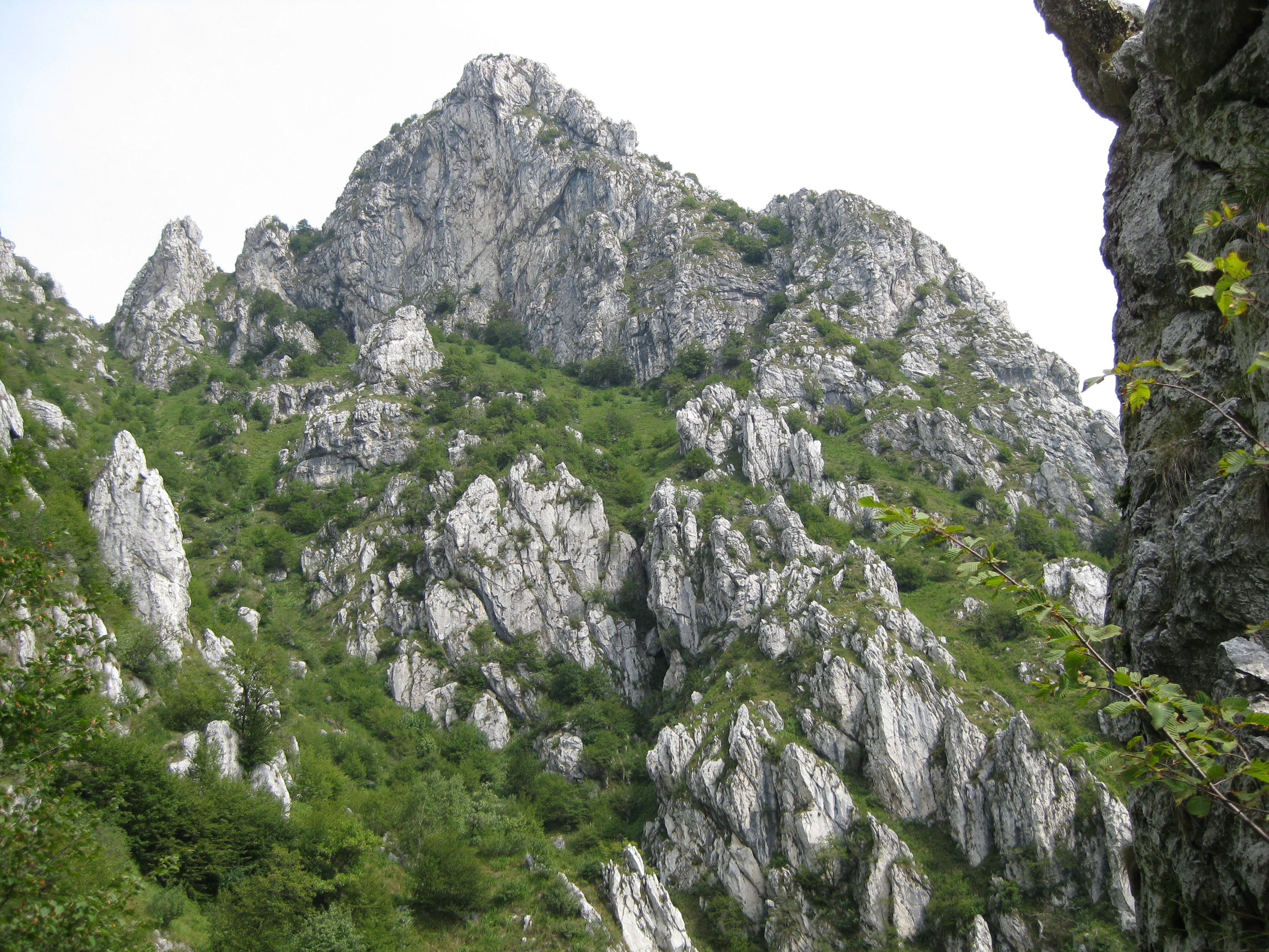 Monte Croce di Muggio (1799 m), mountain near the lake como close to the city of Bellano in Italy. View from the path between Rifugio Capanna Vittoria and the peak.